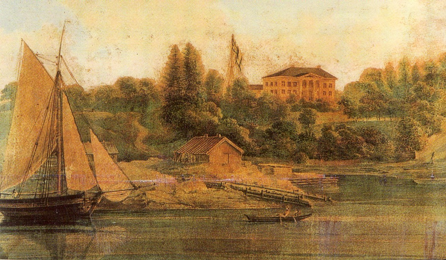 Painting of the family etstate Gjemsoe Kloster by Skien, Norway